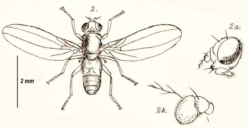 Asteia amona from Walker Insecta Brittanica Diptera